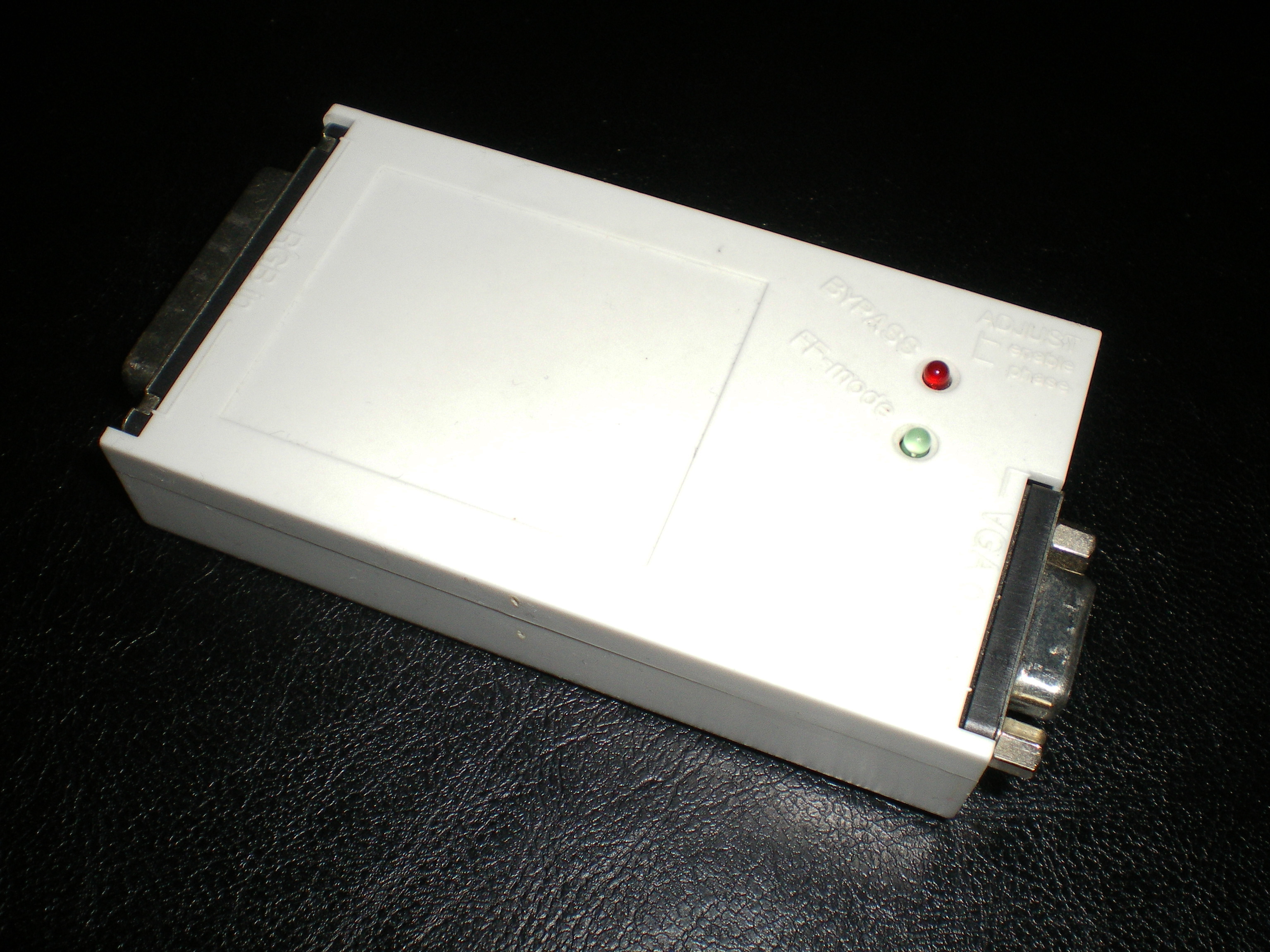 Indivision / Toastscan extern Flickerfixer for all AMIGA versions with 24pin Video-RGB connector. The selling price was around 249, - €.